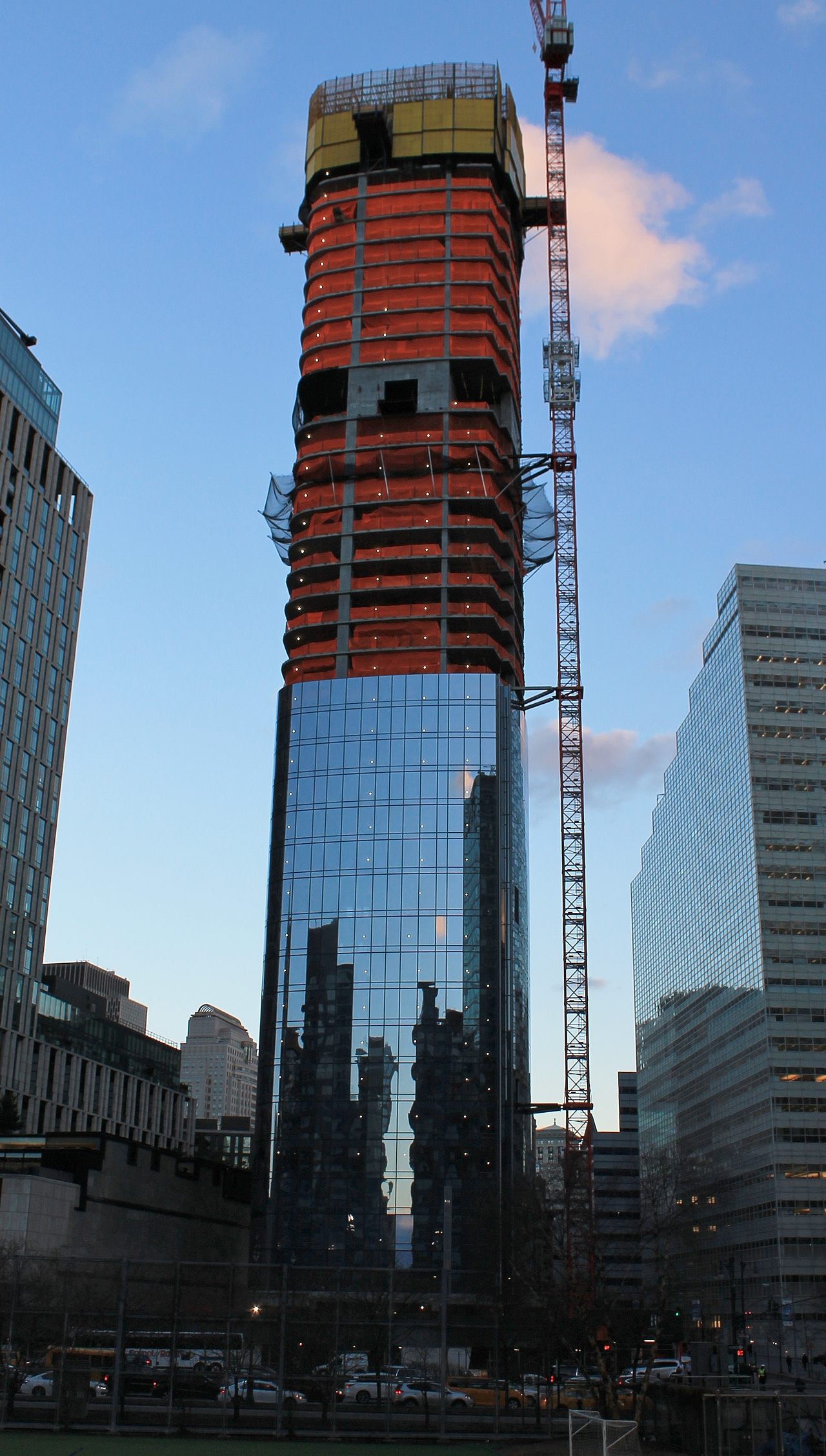 111 Murray seen on 26 January 2017.